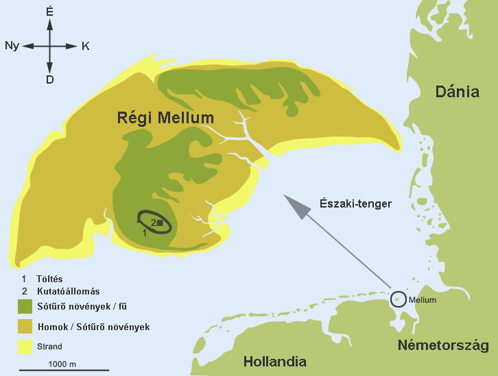 Mellum island, Germany